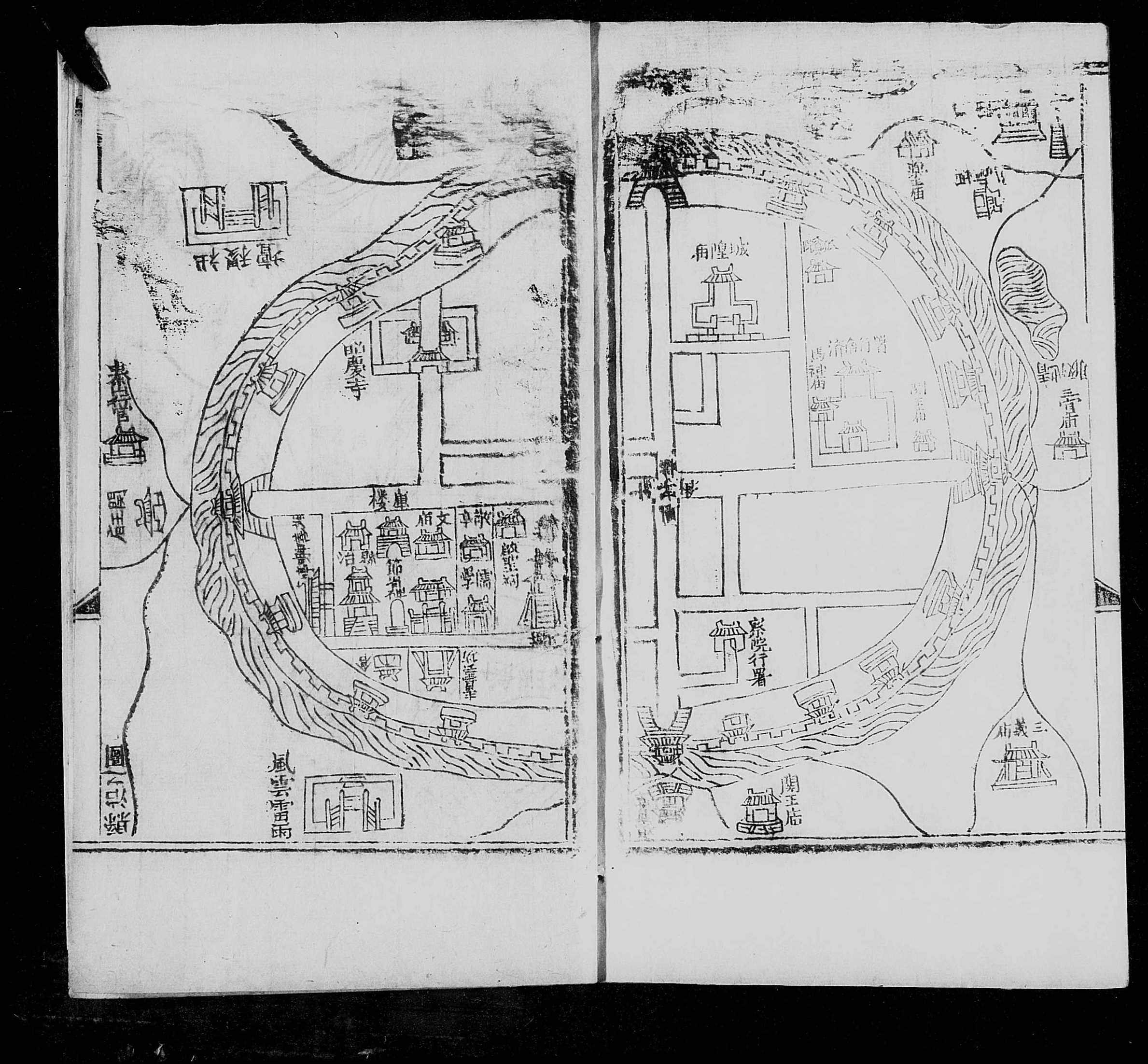 The town of qingcheng county in Qing dynasty